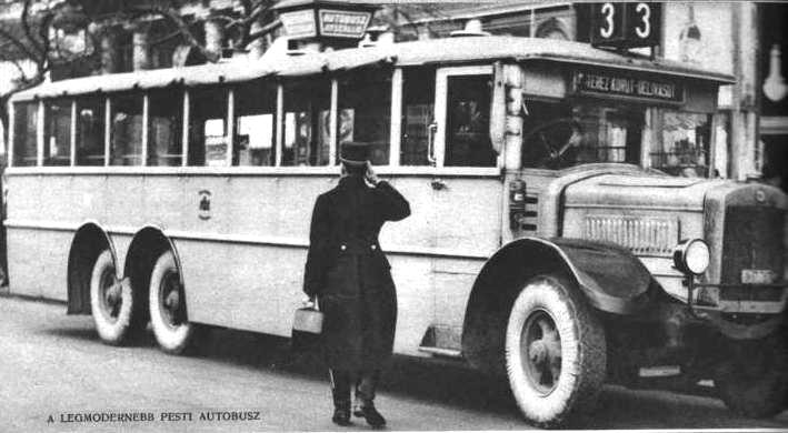 The most modern bus in Budapest in 1930